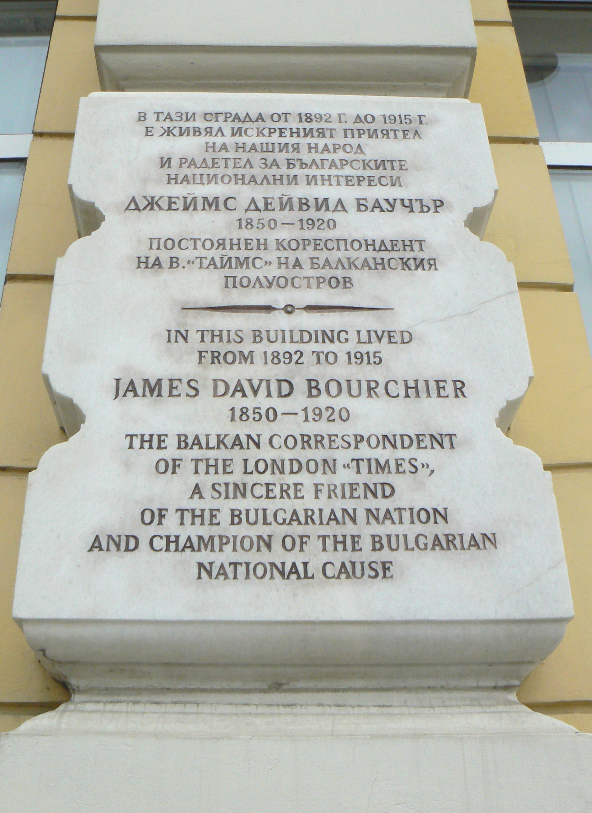 Memorial plaque on the home of James Bourchier, nowadays BNP Paribas, Sofia, Bulgaria